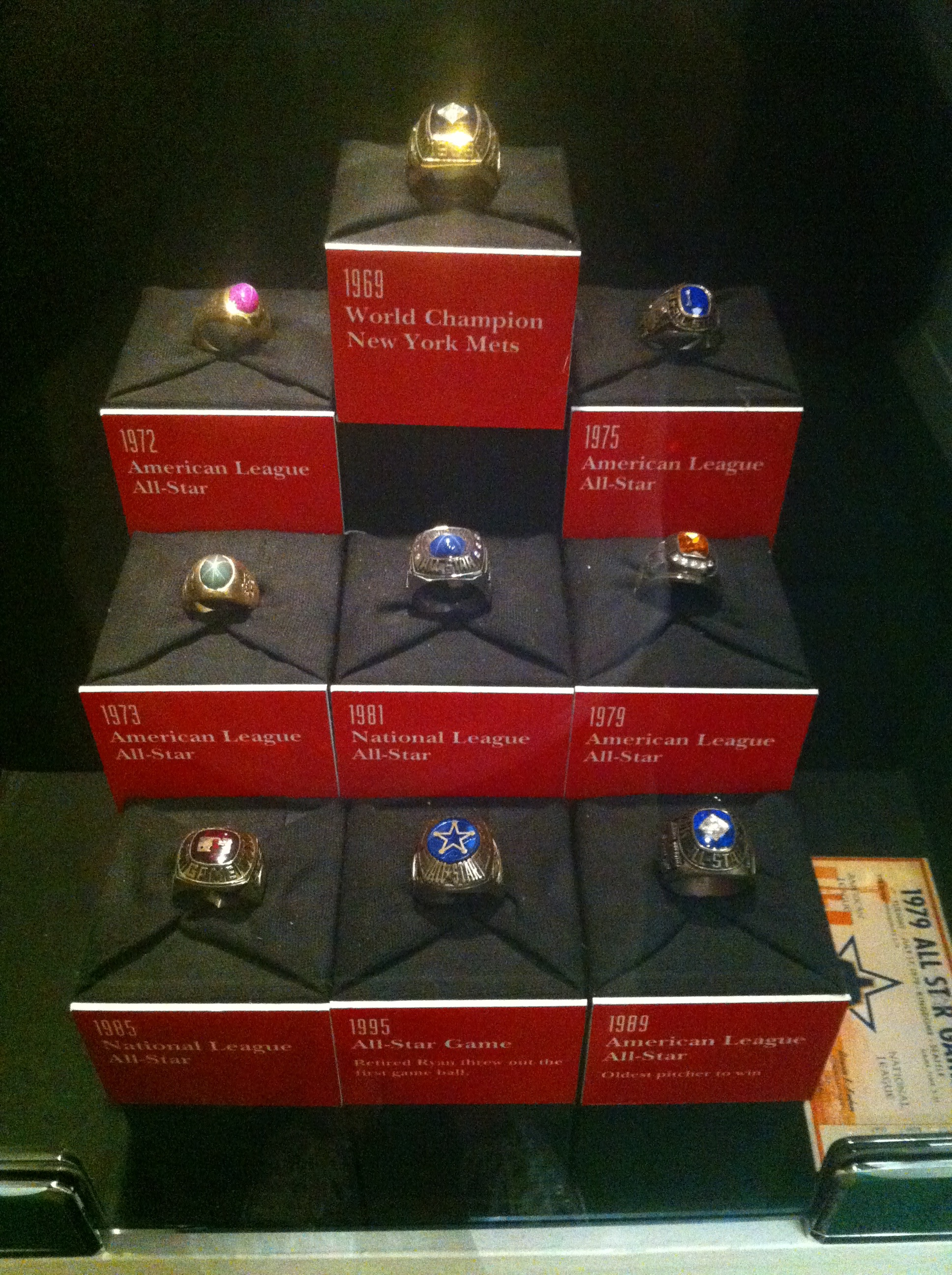 A collection of rings awarded to Nolan Ryan for appearances as an all-star and as a member of the 1969 New York Mets World Champion team on showcase at the Nolan Ryan Exhibit Center in Alvin, Texas.